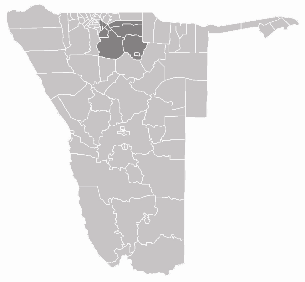 map of the Oshikoto region in Namibia